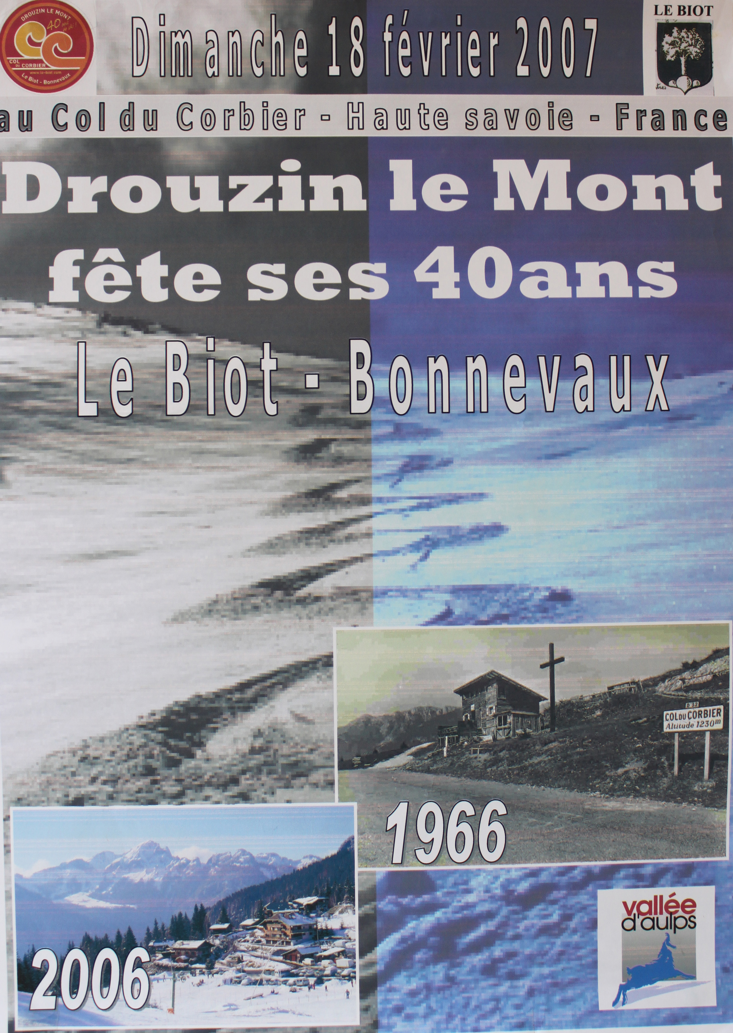 Col du Corbier/Drouzin-le-Mont - Poster for the resort's 40th anniversary